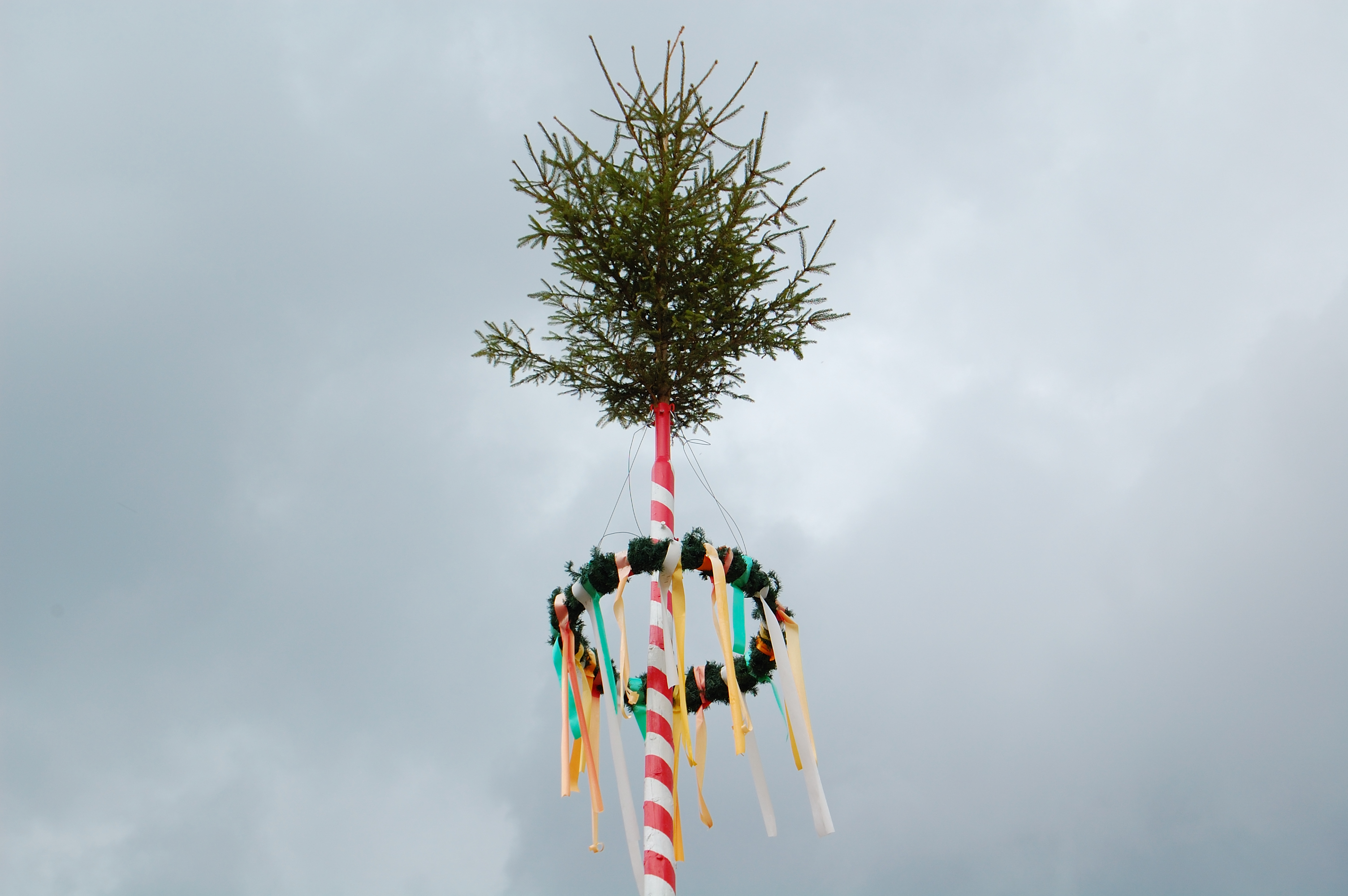 A maypole in Prachatice, Czech Republic.